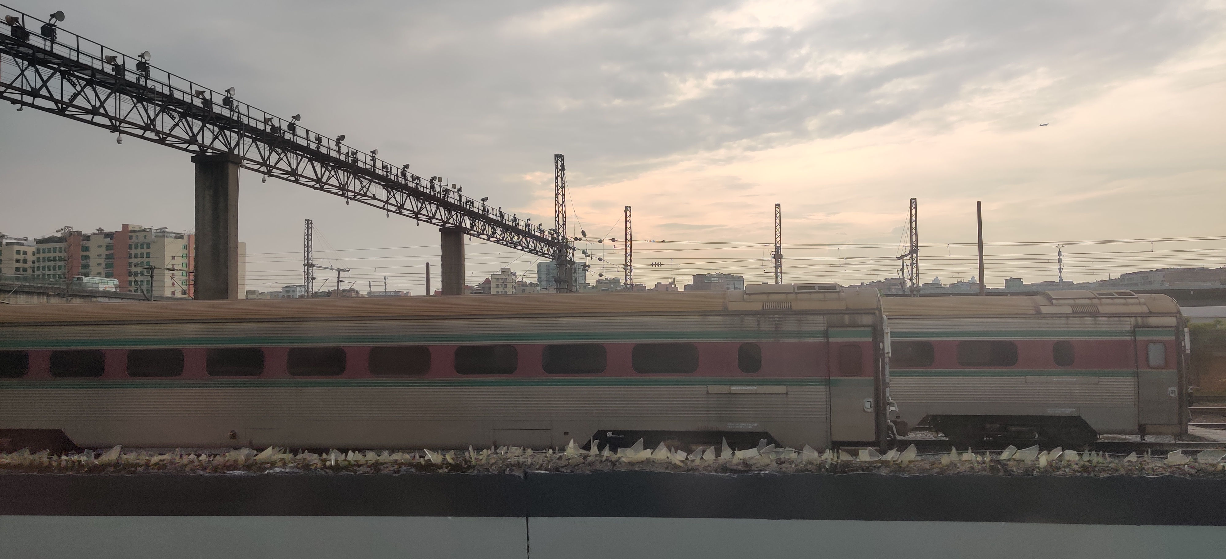 China Railways type 25C coaches for scrapping at Guangzhou.